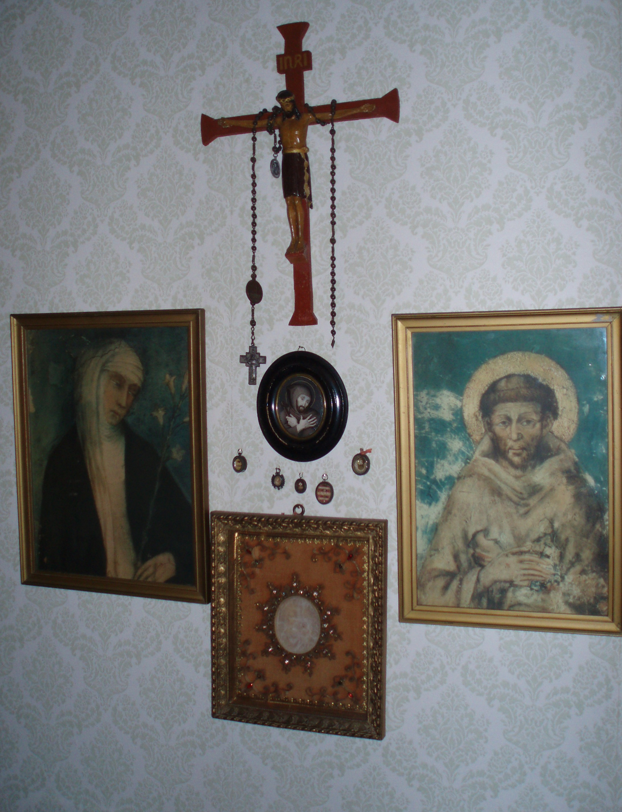 The home of the danish writher Johannes Jørgensen in Svendborg